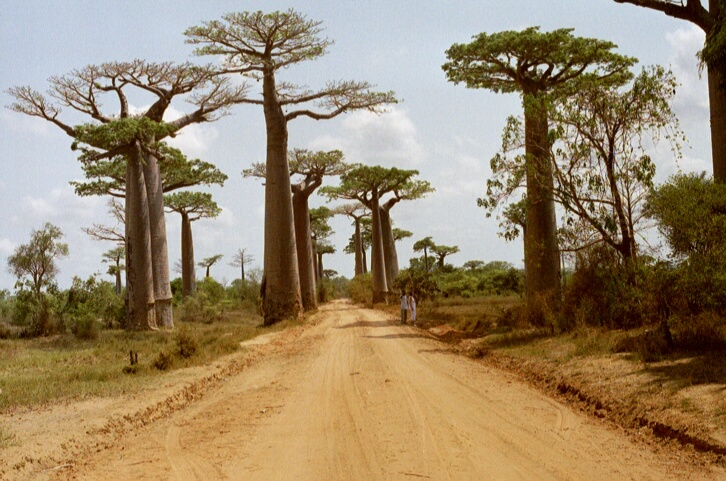 Baobab Trees near Morondava, November, 2001.